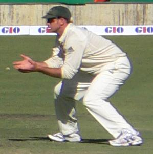 Matthew Hayden fielding at first slip vs South Africa at the WACA